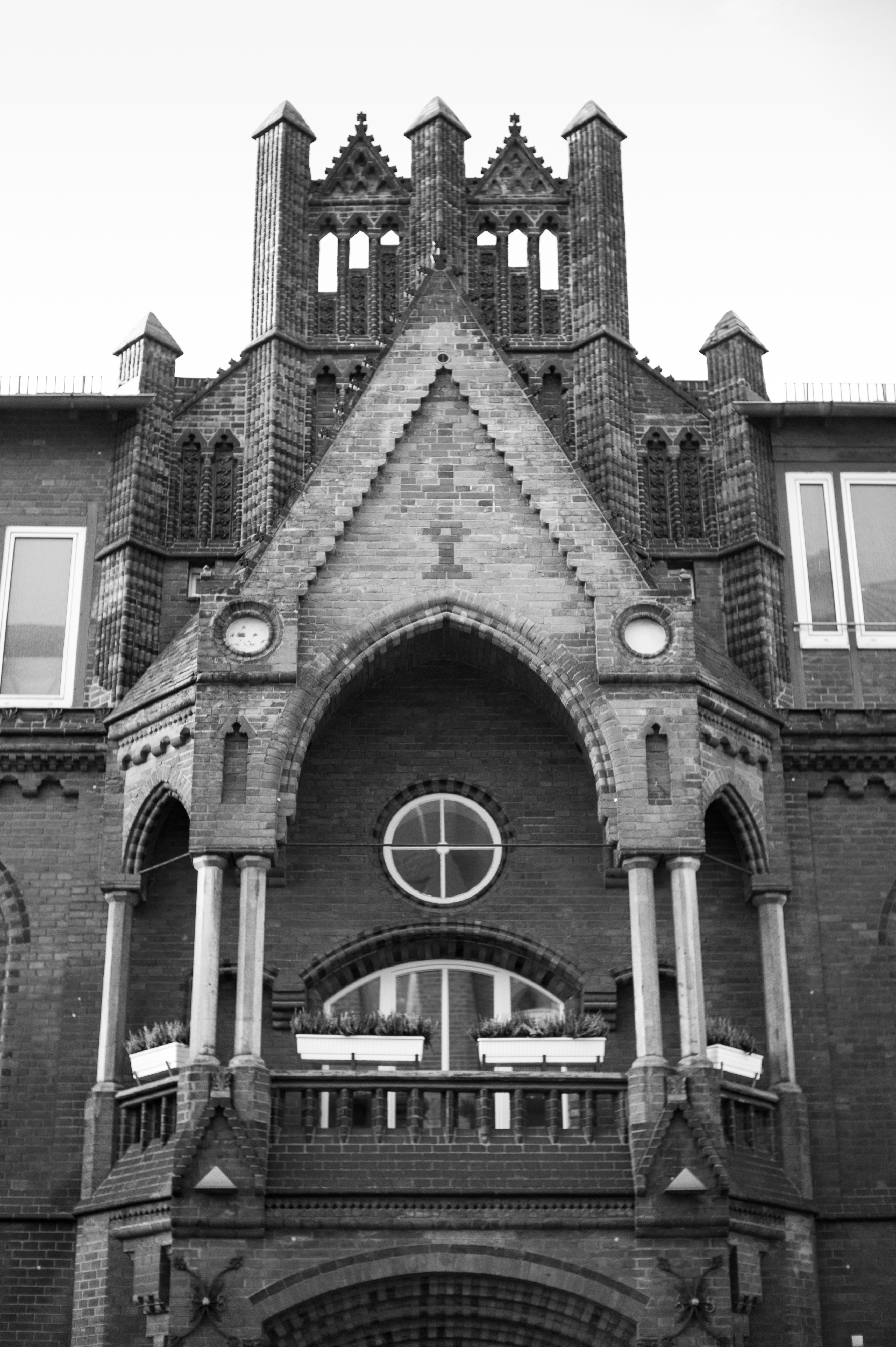 Pinnacle gable in combination with a triangular shaped gable at the gym building of Turnklubb Hannover. At the front of triangular shaped gable, a "gymnast's cross" can be seen within the brick wall, formed by glazed bricks. The building is located at Maschstrasse in Suedstadt quarter of Hannover, Germany.